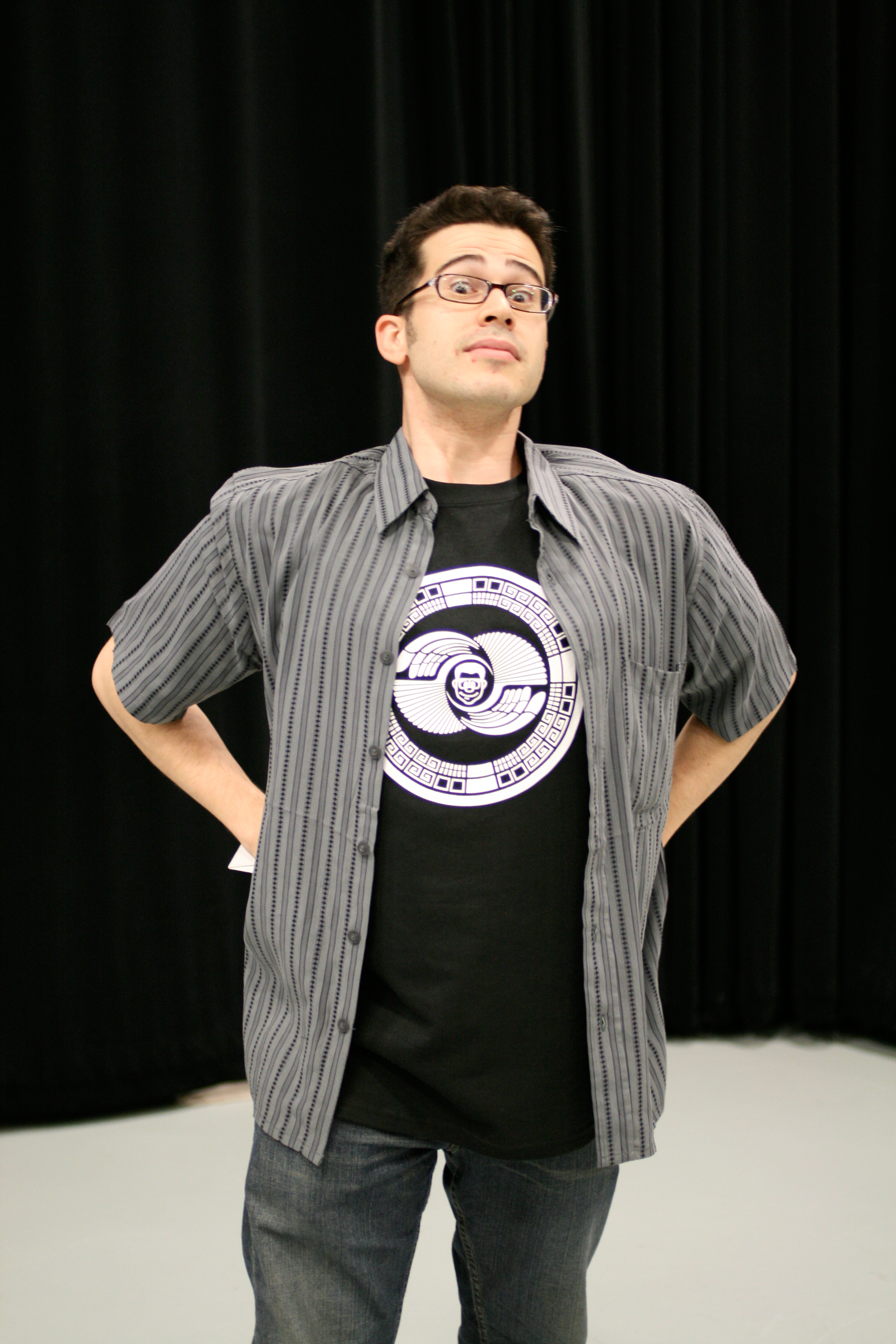 Chris Pirillo wearing the Gnomedex 2007 t-shirt.